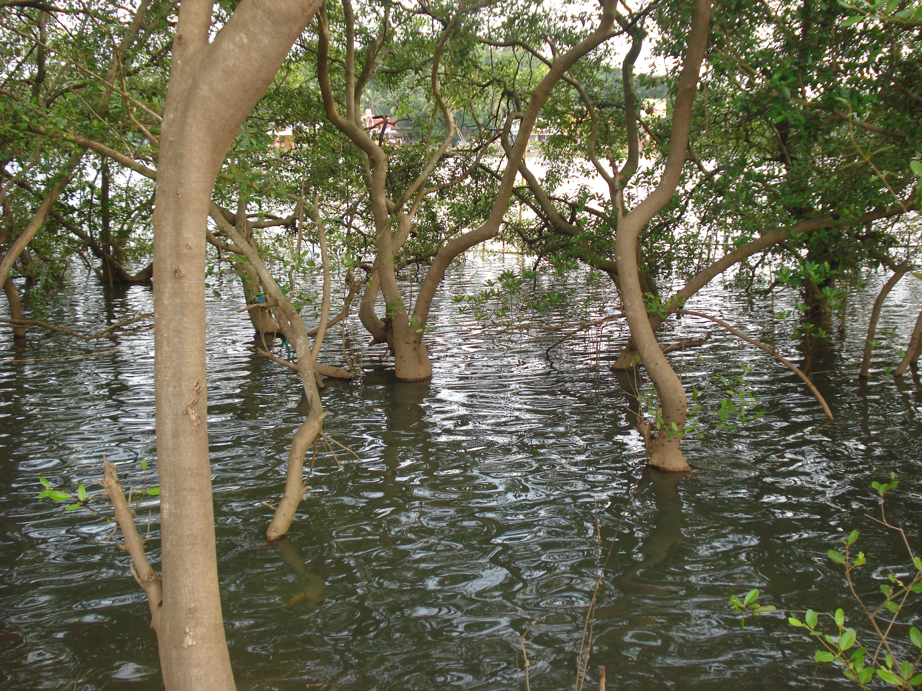 Mangrove park at Pappinisseri build near Valapattanam river in kannur, kerala.